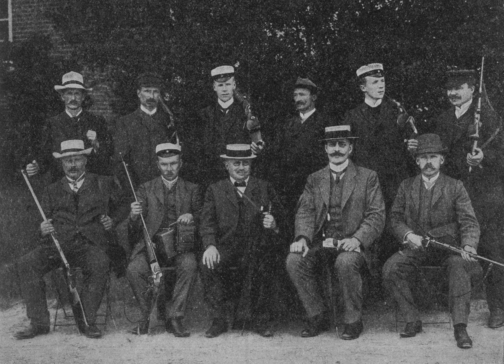 Finland's rifle shooters at the 1908 Summer Olympics and two officials. Standing: Karl Reilin, Emil Nässling, Lauri Kolho, Huvi Tuiskunen, Voitto Kolho, Gustav NymanSitting: Frans Nässling, Heikki Huttunen, Axel Fredrik Londen (captain), head consul Norrgren (guide), Heikki Hallamaa